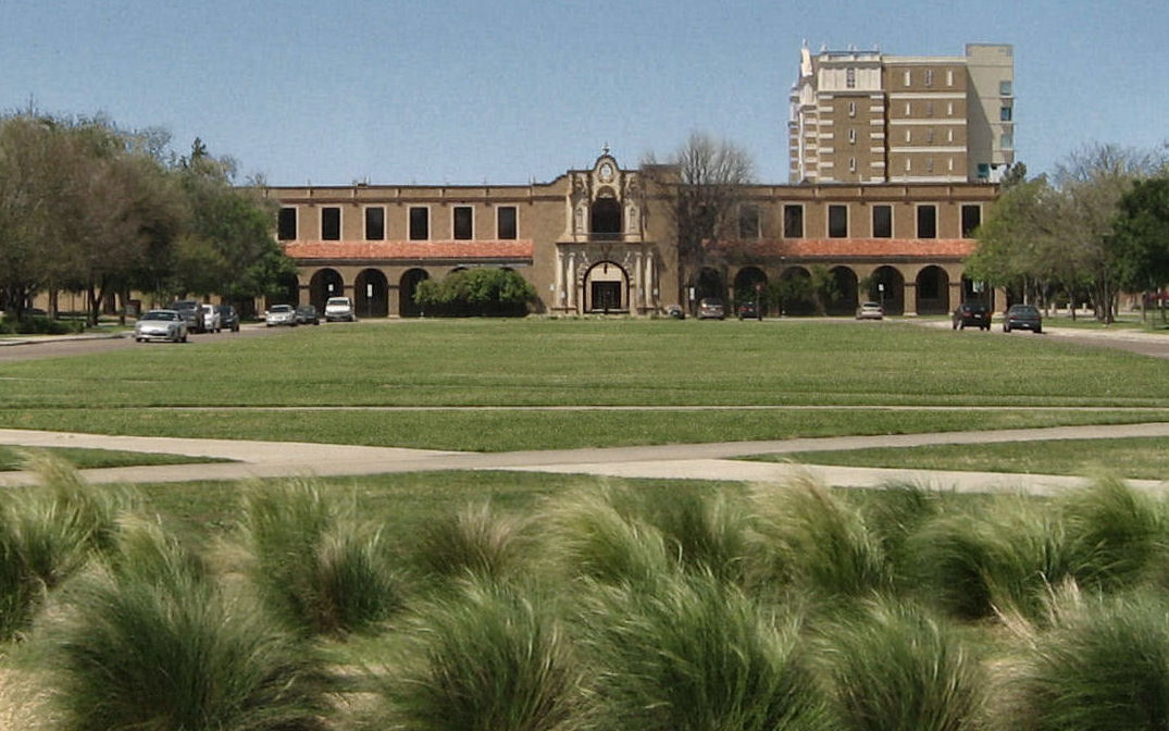 The Engineering Quadrangle at Texas Tech University in Lubbock, Texas, U.S.